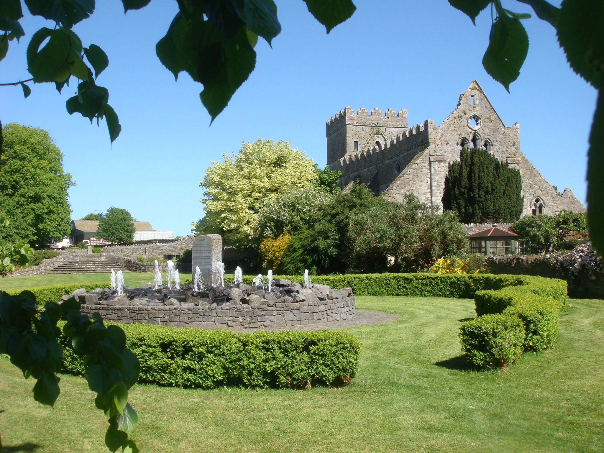 This is a photograph of St. Mary's Collegiate Church Gowran, Co. Kilkenny, Ireland. The photograph was taken at the Green in the centre of the Town of Gowran. The photograph was taken on the 4th of June 2013 at 13:56.